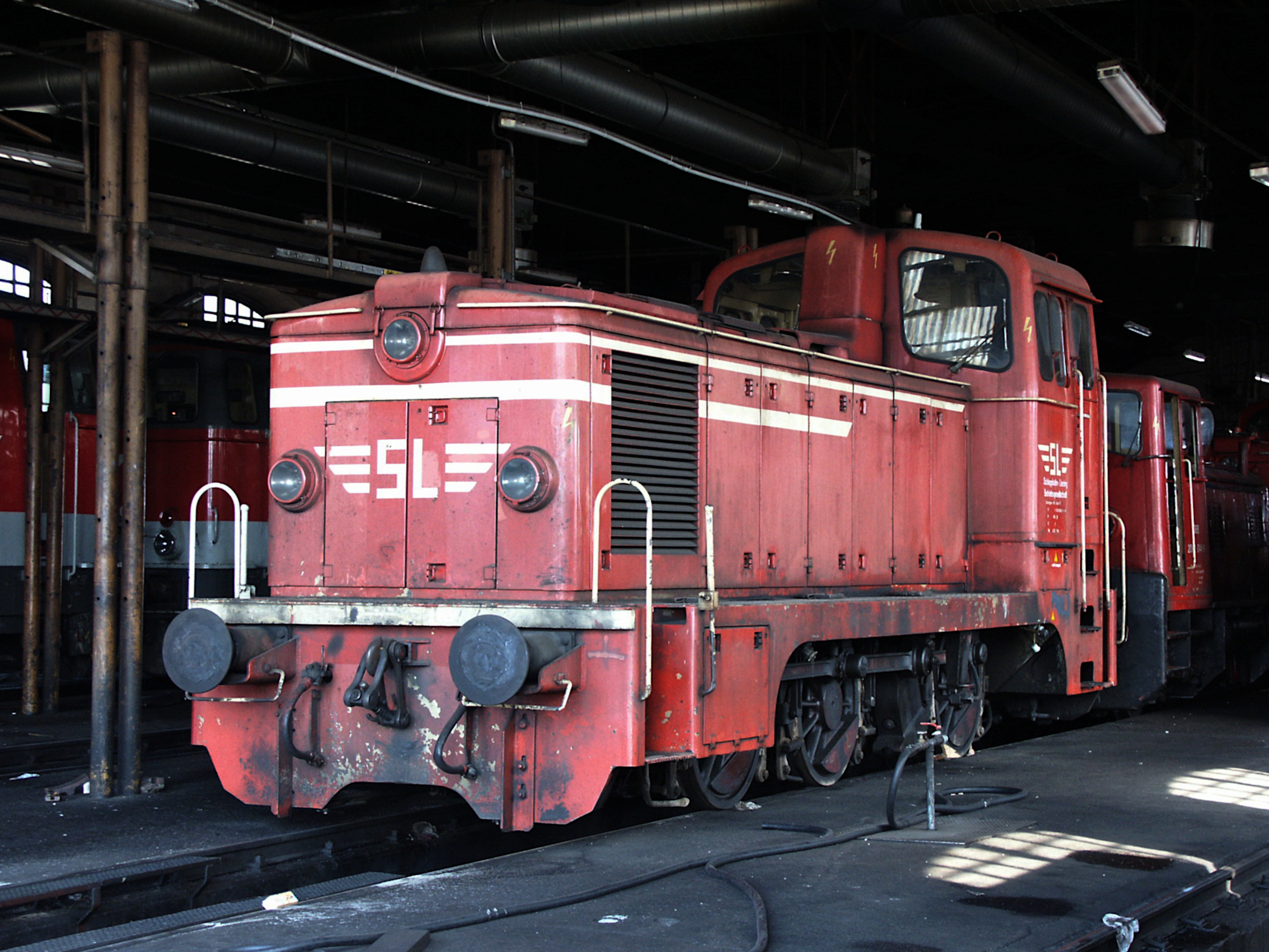 LDH 420 of the Schleppbahn Liesing (Liesing industrial railway) at Wien Ost shed.